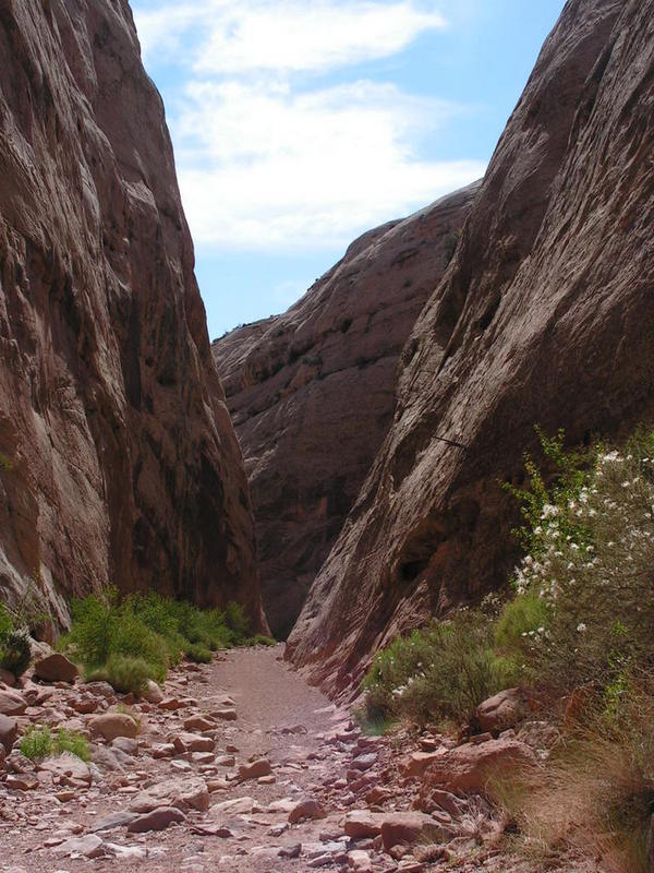 Capitol Gorge, Capitol Reef National Park.